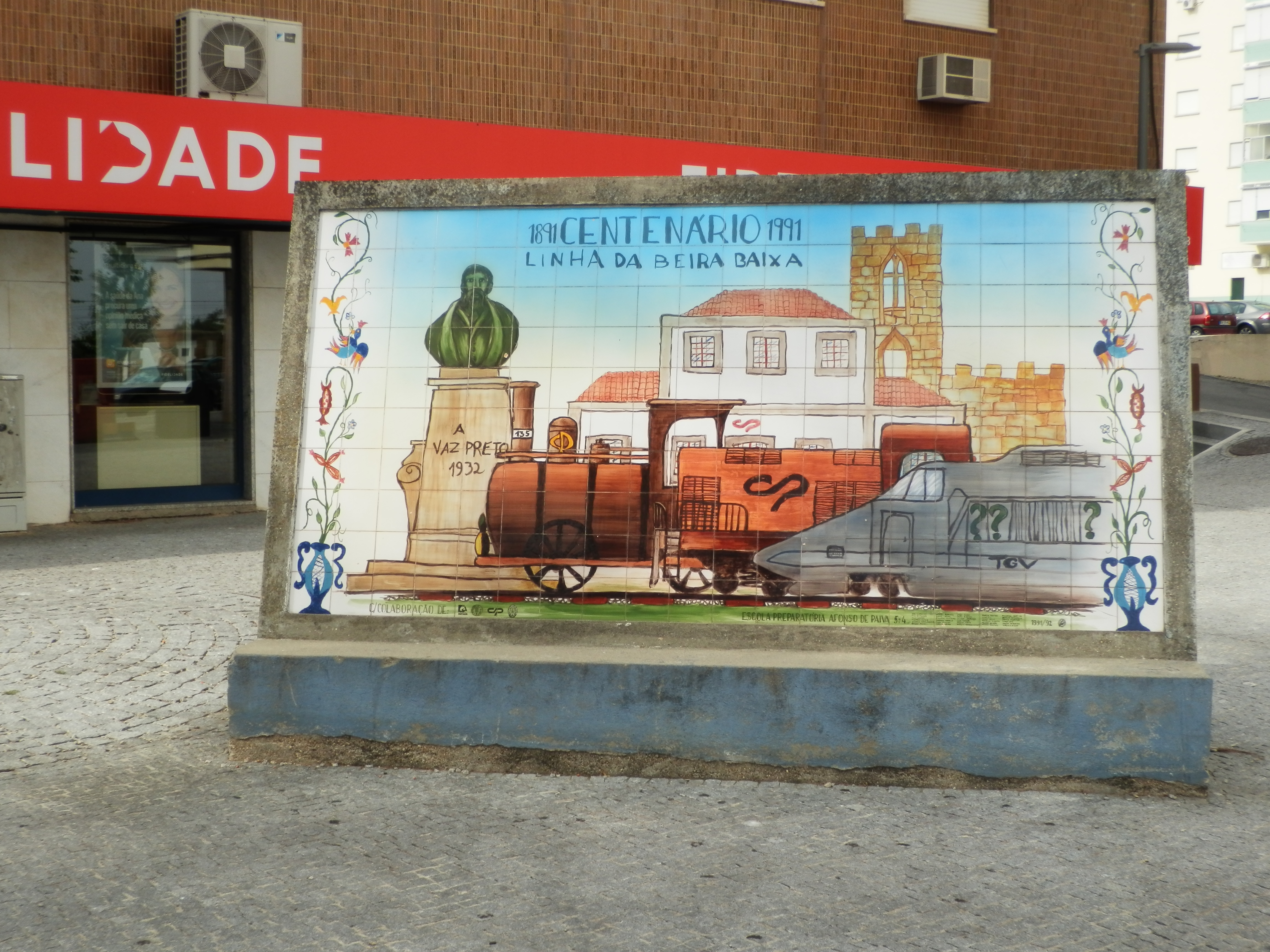 Centenary celebrations of the Linha da Beira Baixa The TGV was never going to Castelo Branco